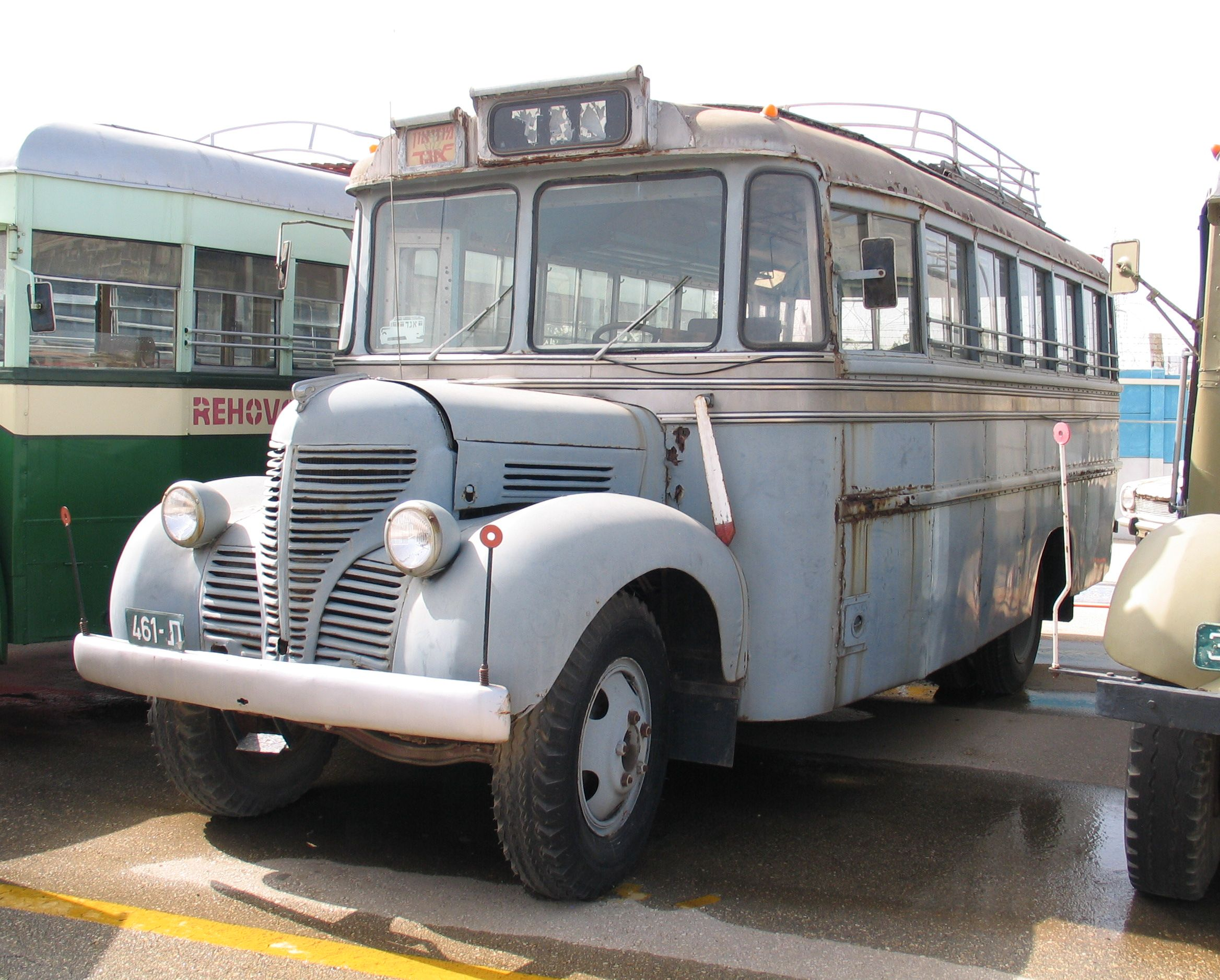 A bus (Fargo chassis, body produced in Jordan) in the Egged Museum, Holon, Israel.